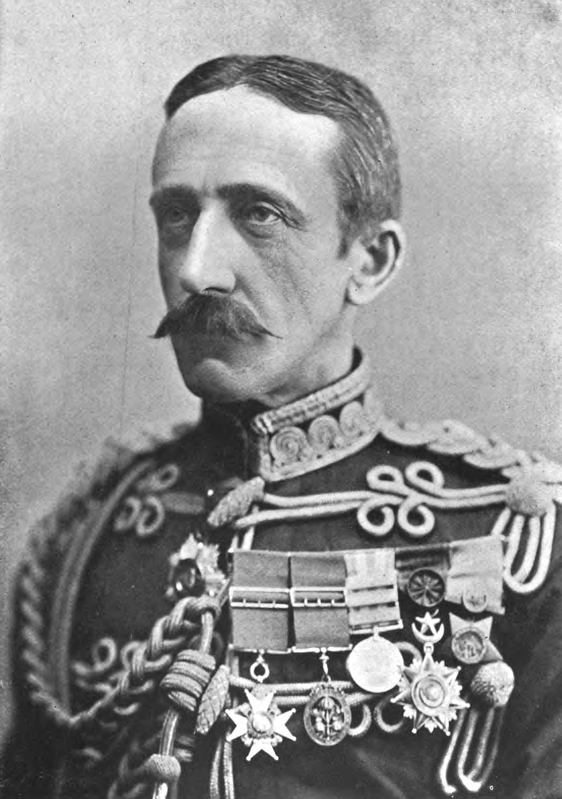 John Charles Ardagh (1840-1907),photograph taken in 1894